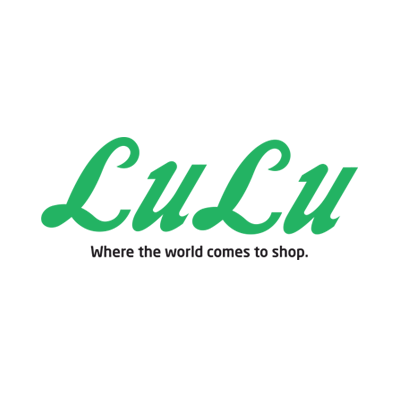 Official logo of LuLu Hypermarket